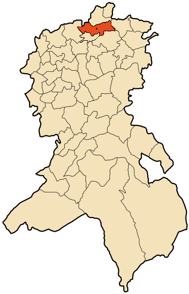 Sidi Hamadouche